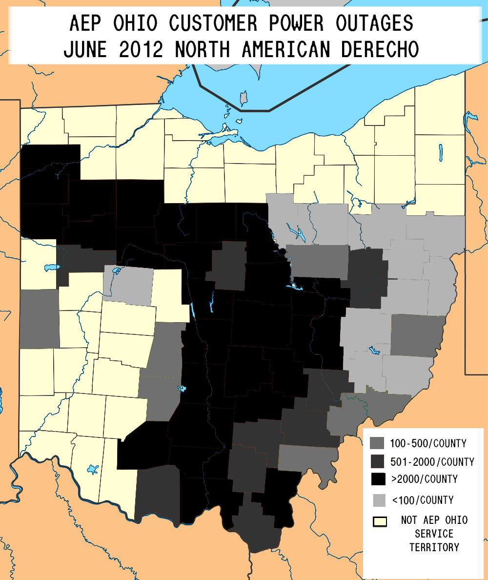 Free version of the AEP outage map from the Derecho